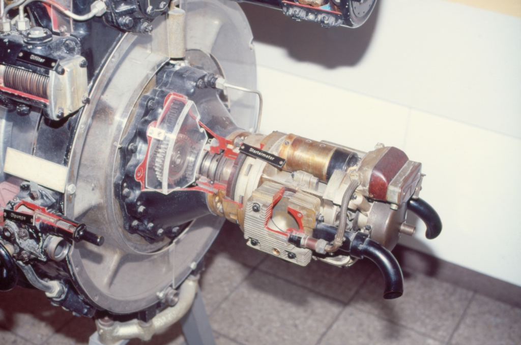 Frontside of the german BMW 003 turbojet with the "Riedel-Anlasser". It was used to start the engine.